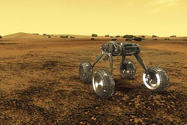 A rover that could survive the intense heat of Venus, seen here in an artist's impression, could revolutionise our understanding of the planet. Cooled by a Stirling Cooler with electronics at 200 °C and external radiator at 500 °C. Since the Venusian atmosphere is 'only' 450 °C the radiator will lose energy. Geoffrey Landis and Kenneth Mellott from NASA's Glenn Research Center in Ohio.